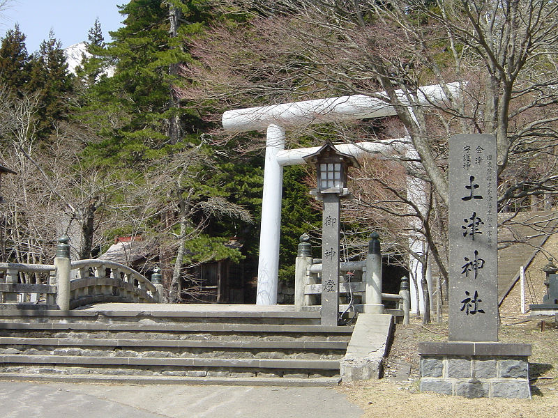 Hanitsu-jinja the Shinto shrine in Inawashiro, Fukushima, Japan.